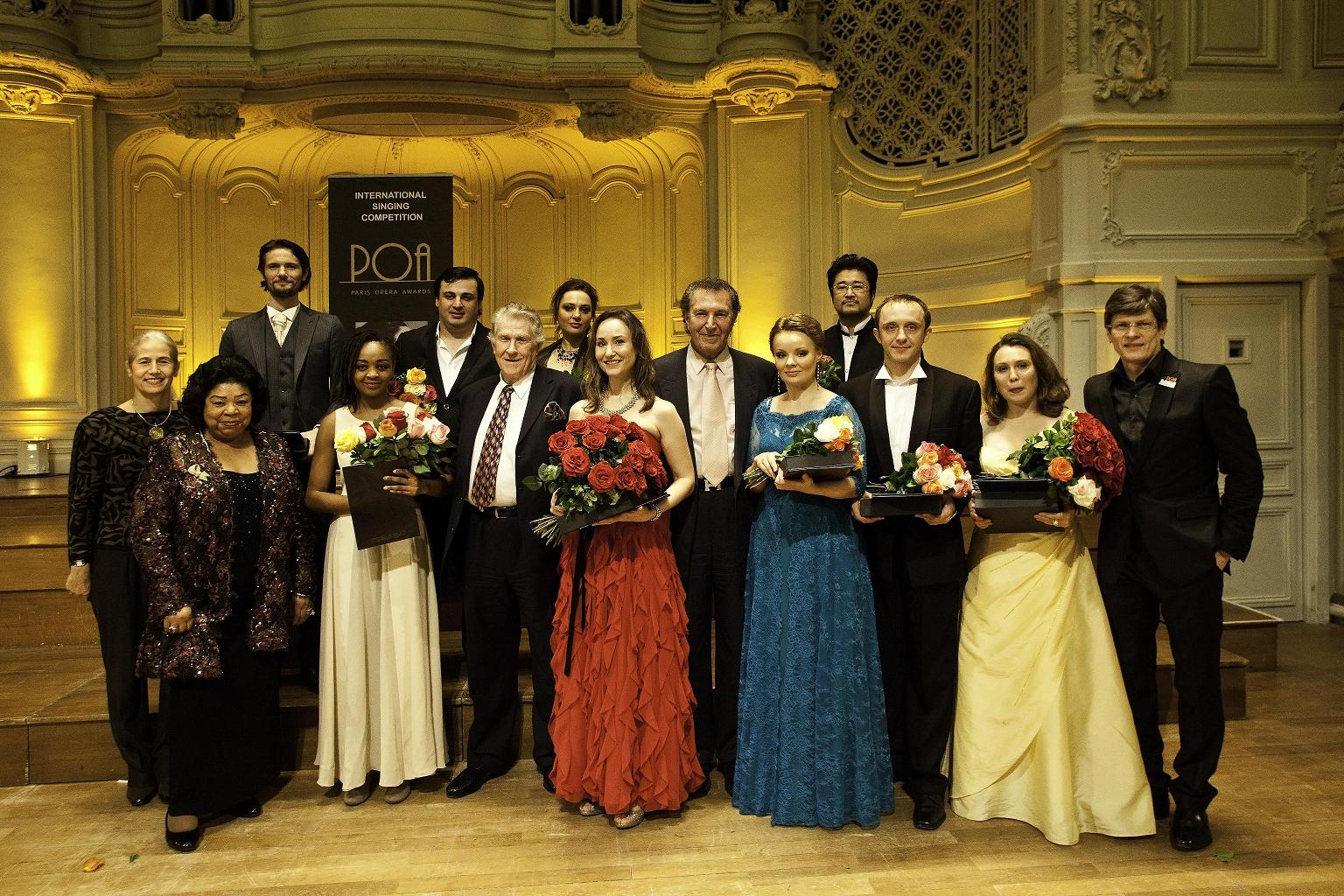 International Opera Singing Competition - Paris Opera Awards